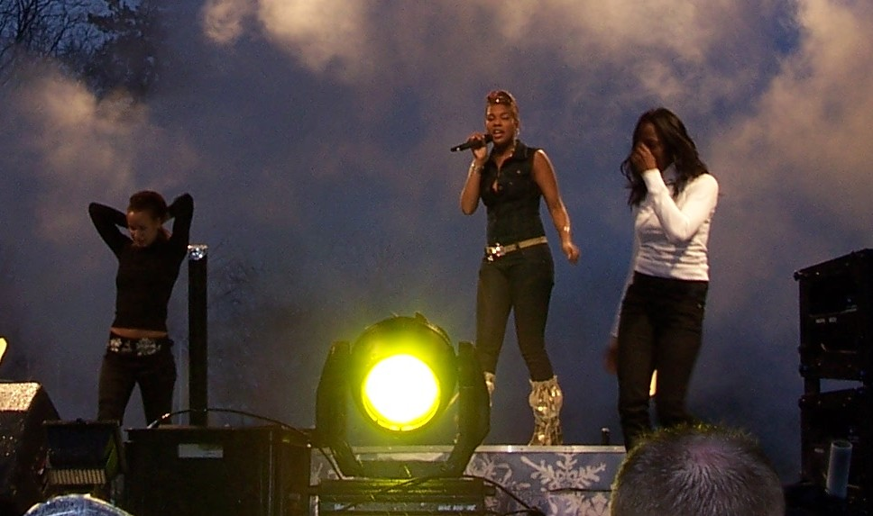 Winner of the Dutch version of Idols III